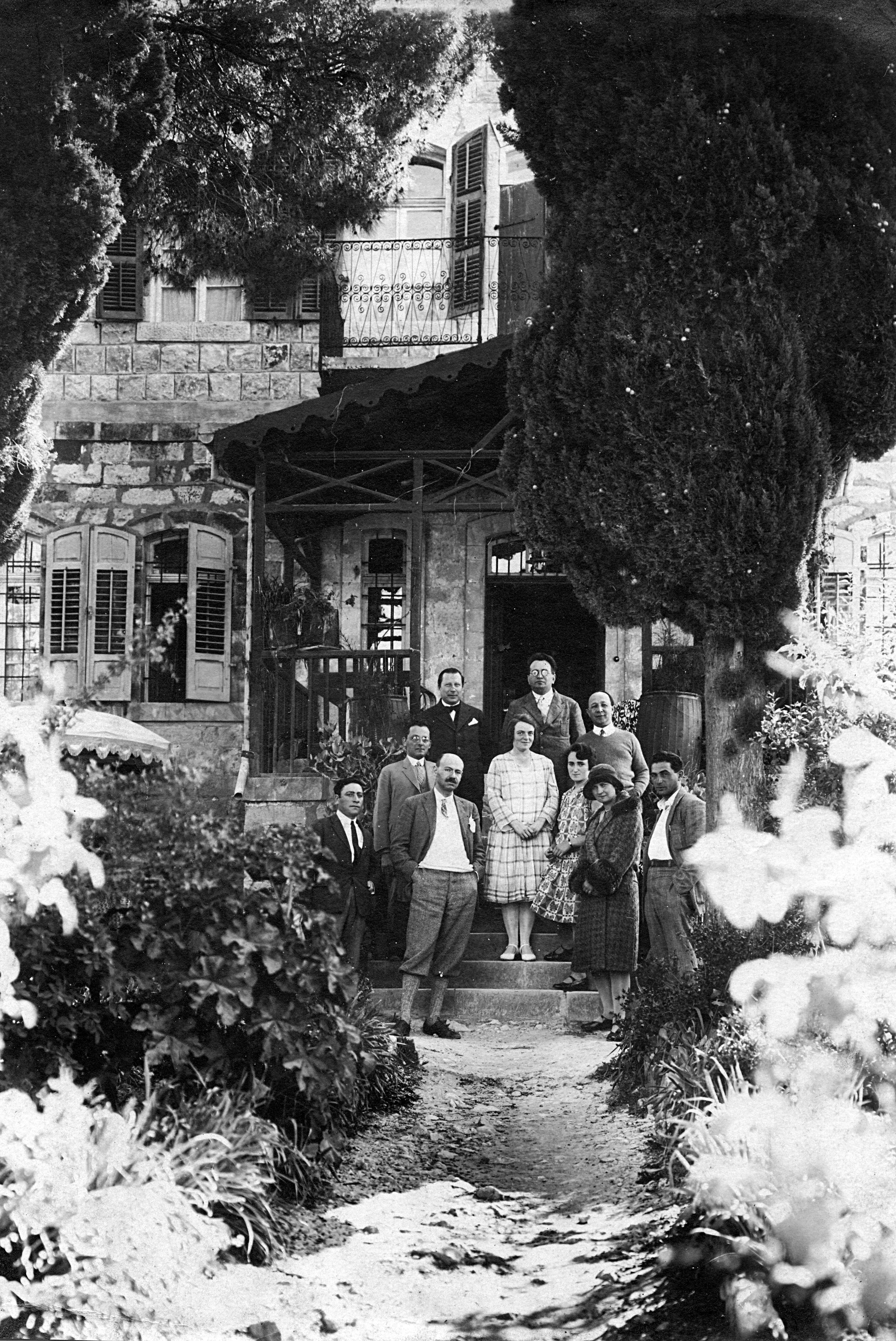 The Galil Hostel in Safed 1928